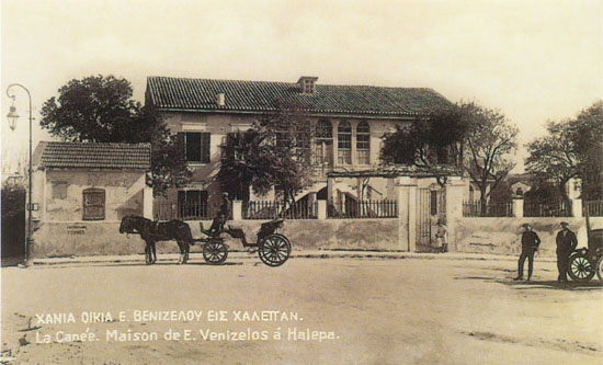 House of Eleftherios Venizelos in the 1920s. Chalepa, Crete.